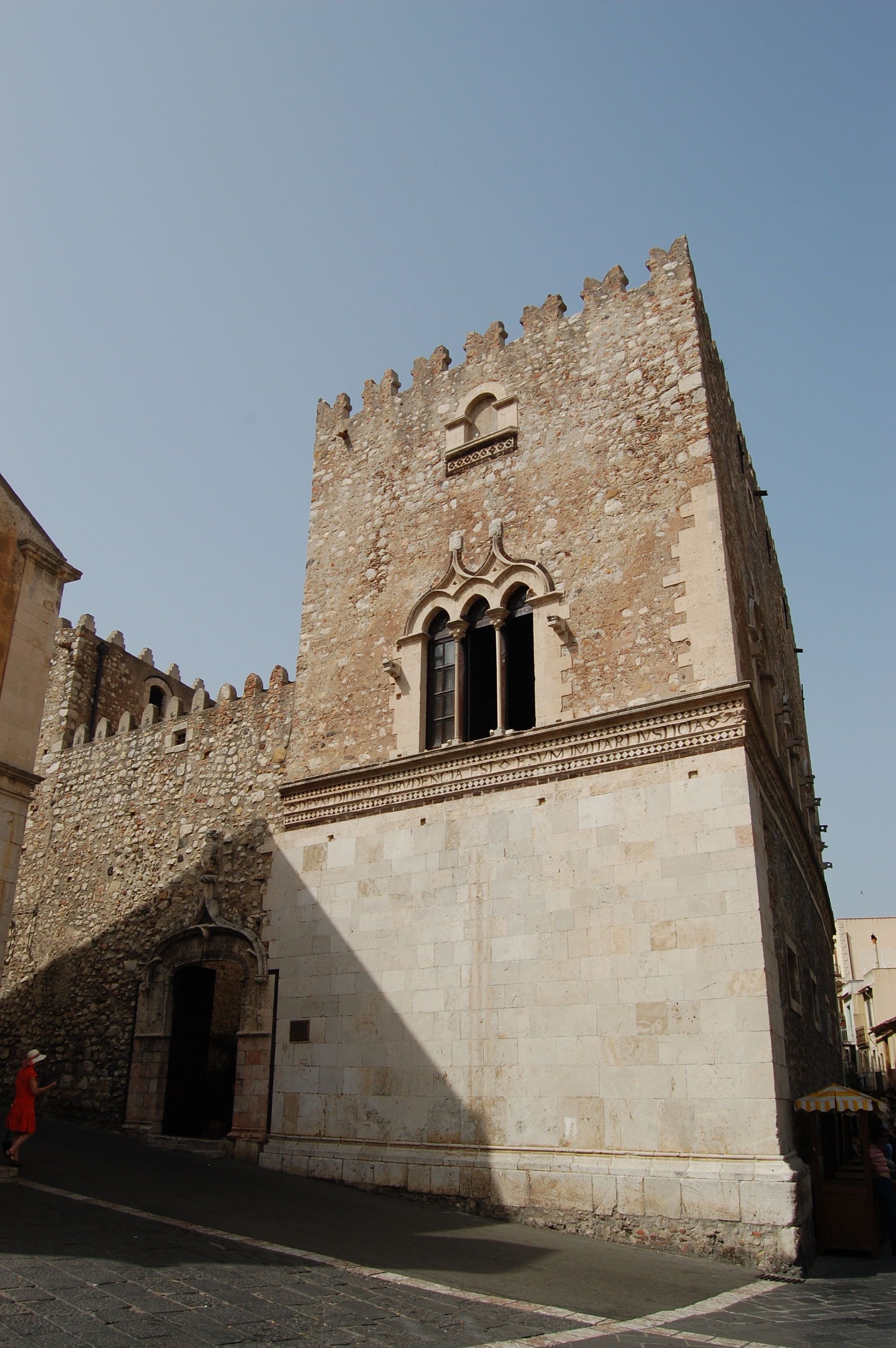 Palazzo Corvaja, Xth-XVth centuries, Taormina, Sicily